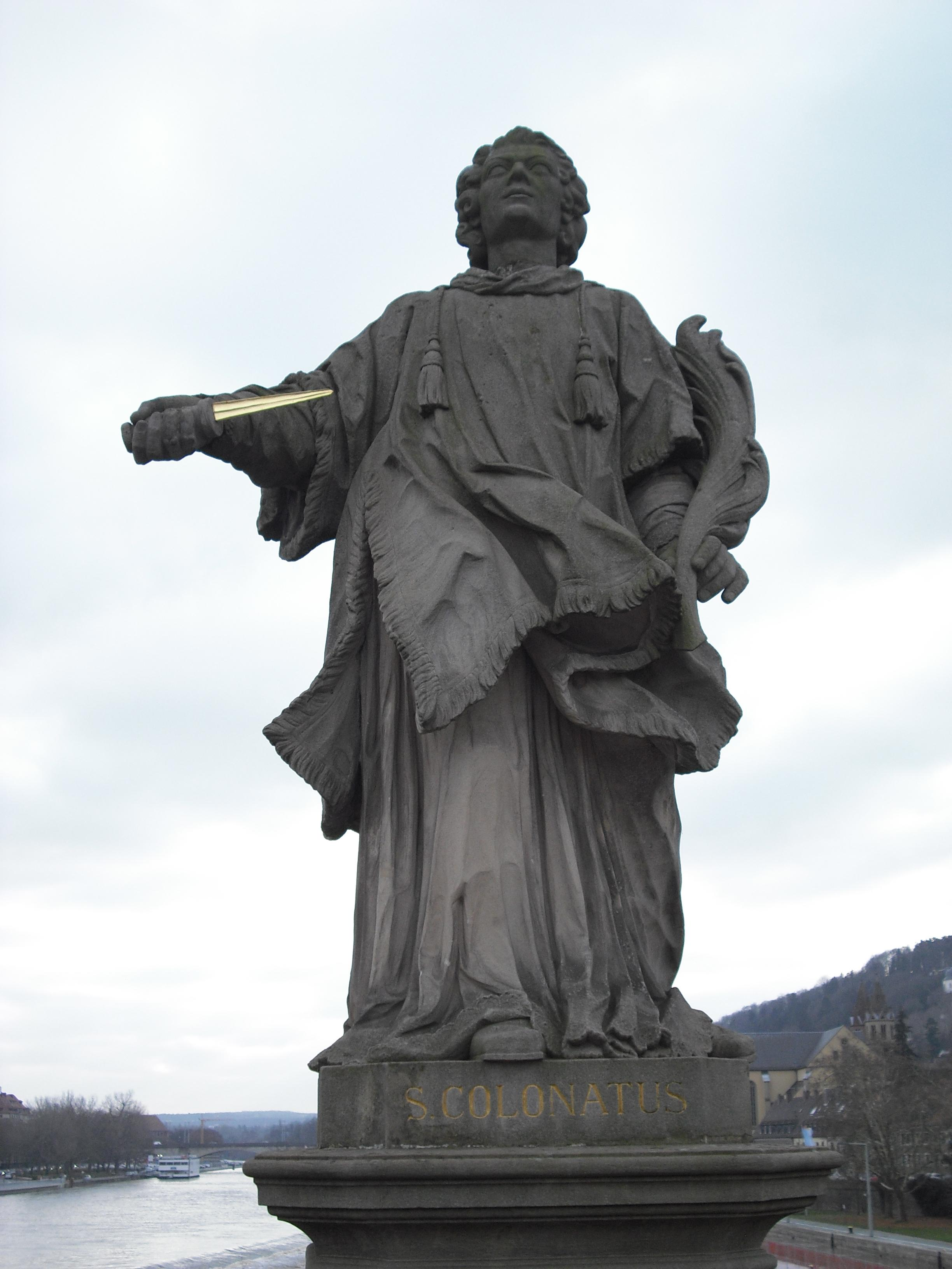 The statue of Saint Colonat on Würzburg's Alte Mainbrücke.